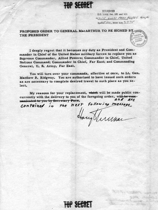 Proposed draft messages to Frank Pace, Douglas MacArthur, and Matthew Ridgway, c. April 1951; MacArthur, Douglas-dismissal; General File; PSF; Truman Papers.